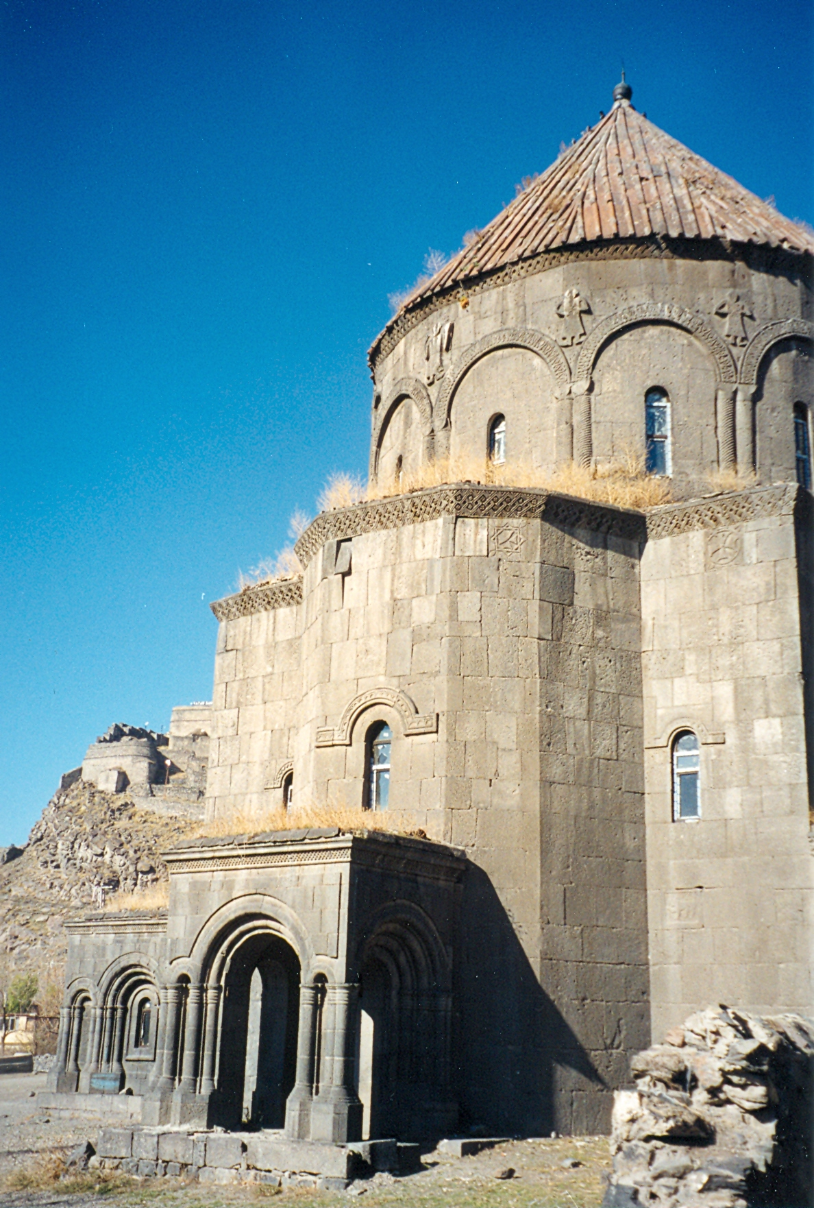 Kümbet Camii, Kars, Turkey.